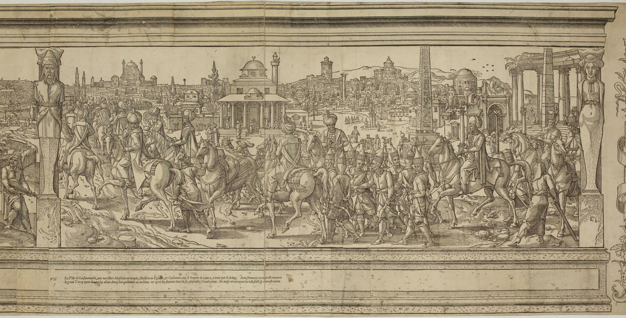 The customs and manners of the Turks, a long composition printed from fourteen blocks framed by another block (printed twice, once at each end) and by a border along the top and the bottom. 1553 Woodcut